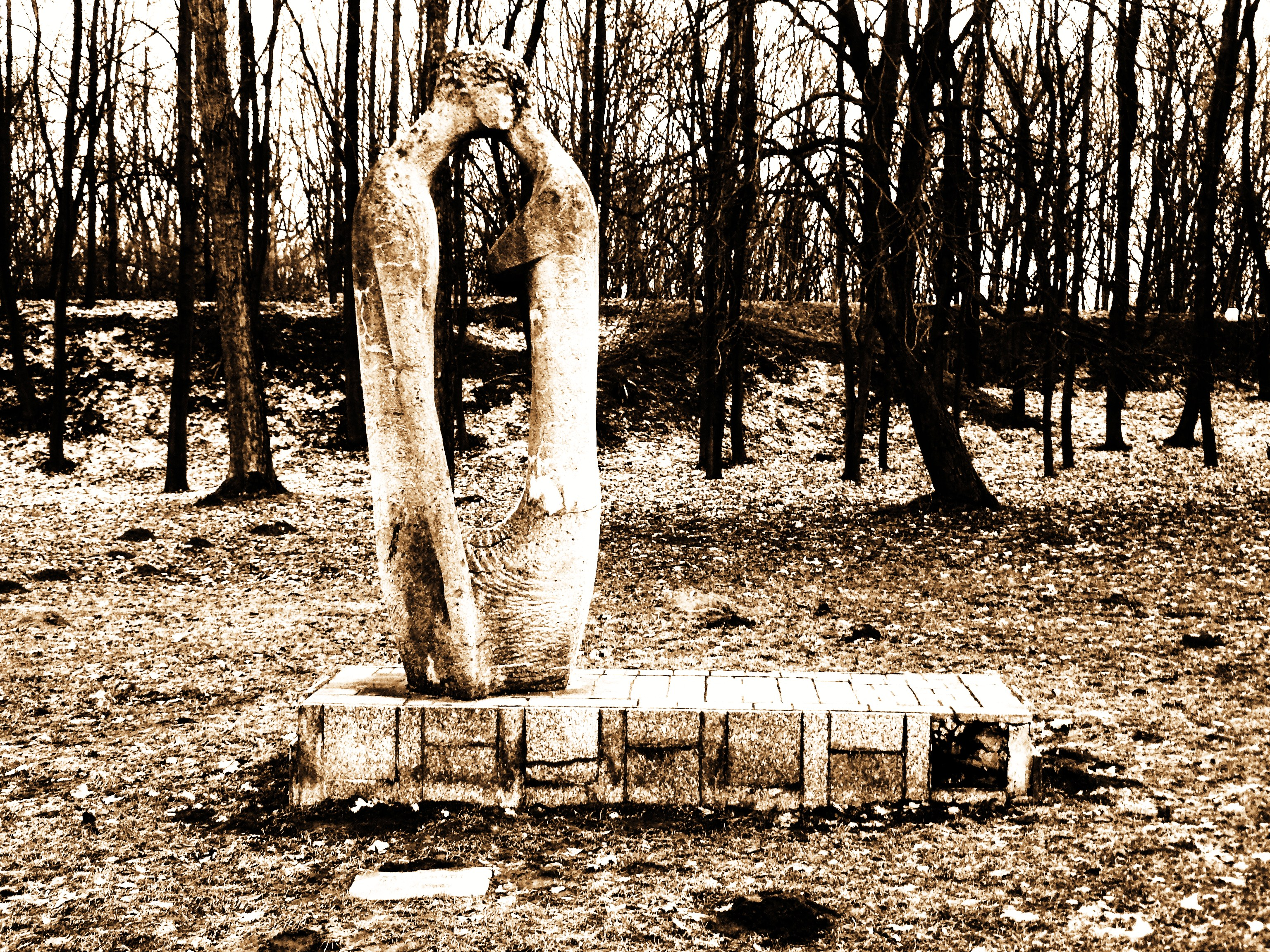 Sculpture A Couple in Love (pl. Zakochani). Sculptor: Irena Woch, 1971, artificial stone. Park Cytadela in Poznań, Poland.